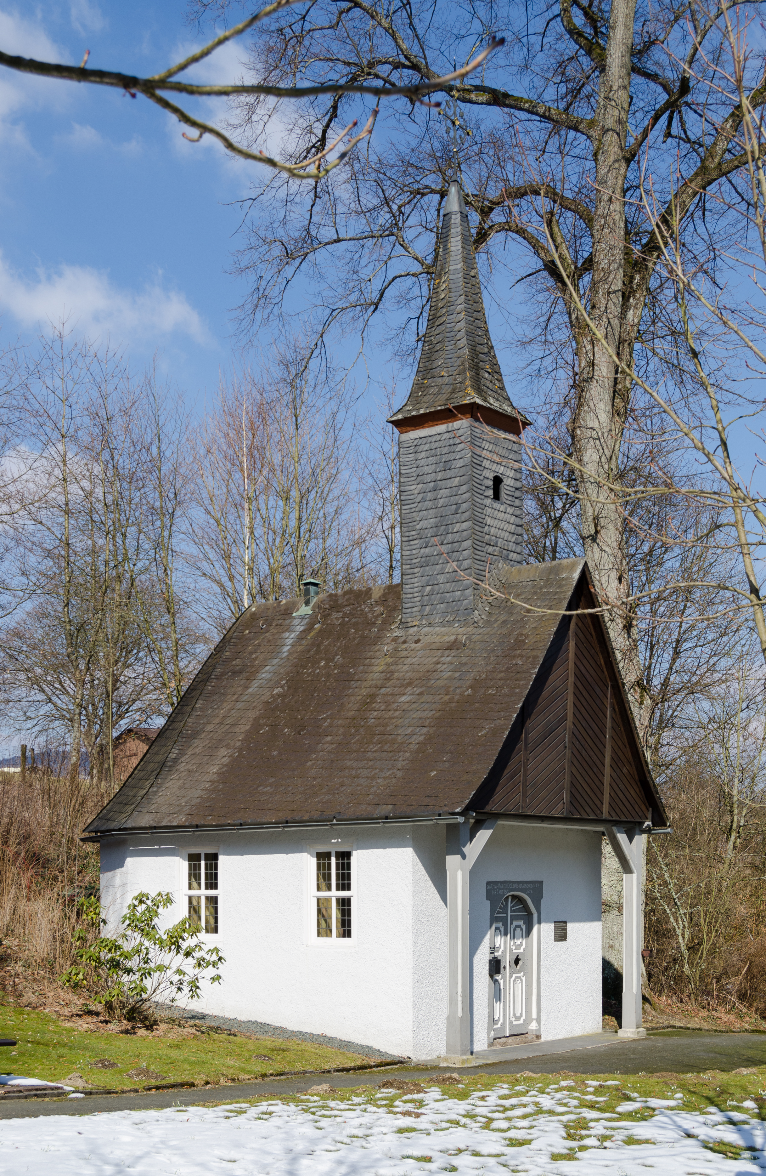 Olsberg (North Rhine-Westphalia, Germany) – district Assinghausen – Chapel at the “Küsterland” This image shows a heritage building in Germany, located in the North Rhine-Westphalian city Olsberg (no. 24). This photograph was taken with a Nikon D7000